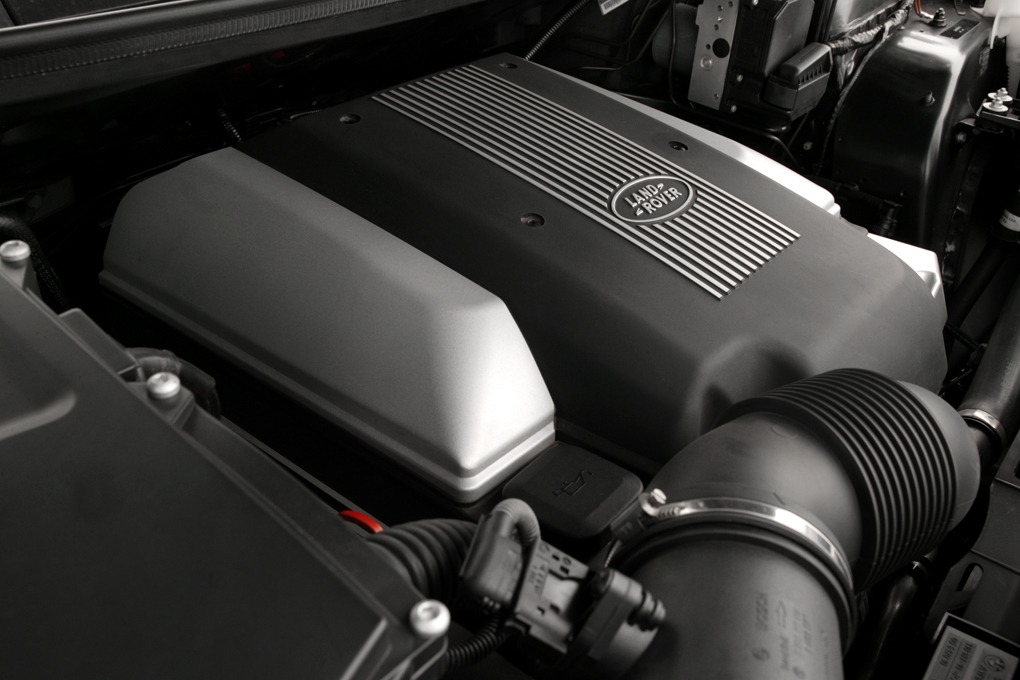 Third Range Rover BMW M62 engine.